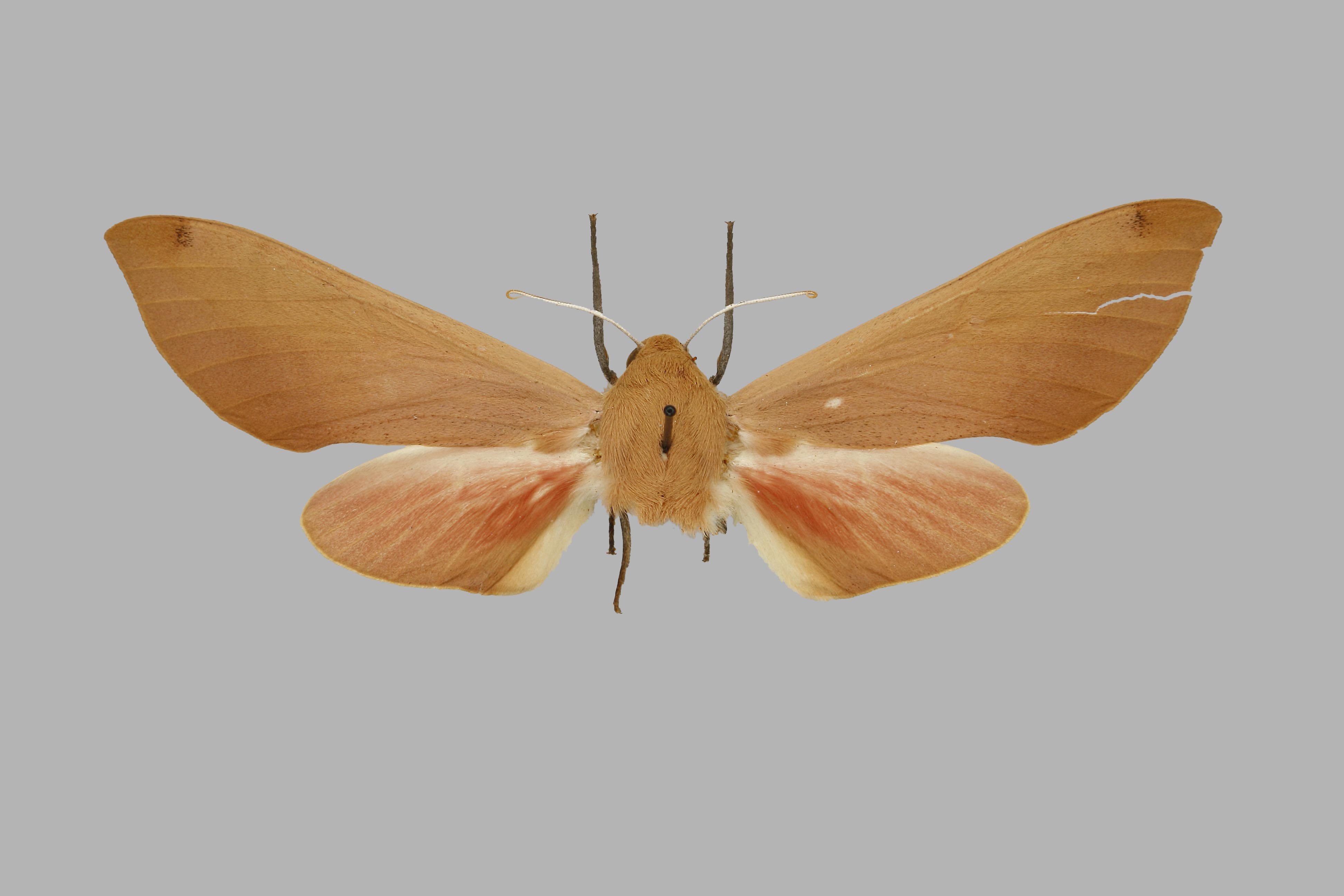 Phylloxiphia metria, female, upperside. Zambia, Mwengwa, 75 miles W of N'dola, BMNHE271377